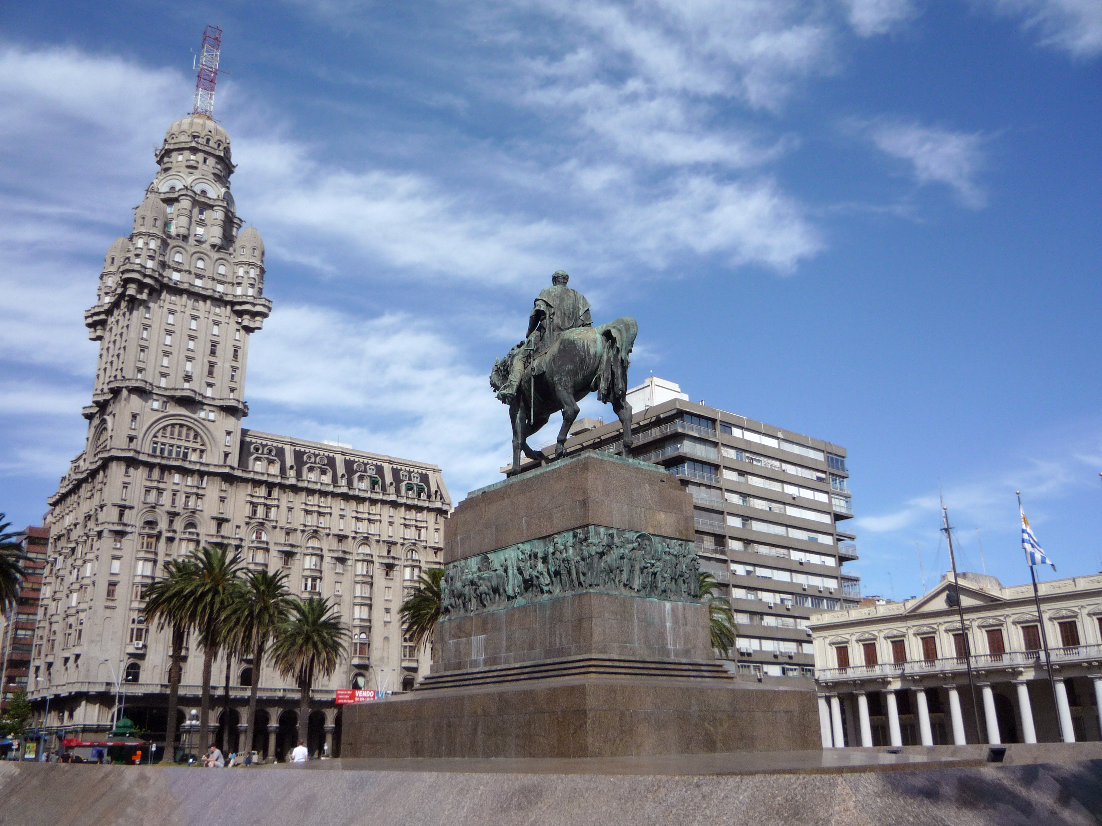 Plaza Independencia in Montevideo, Uruguay